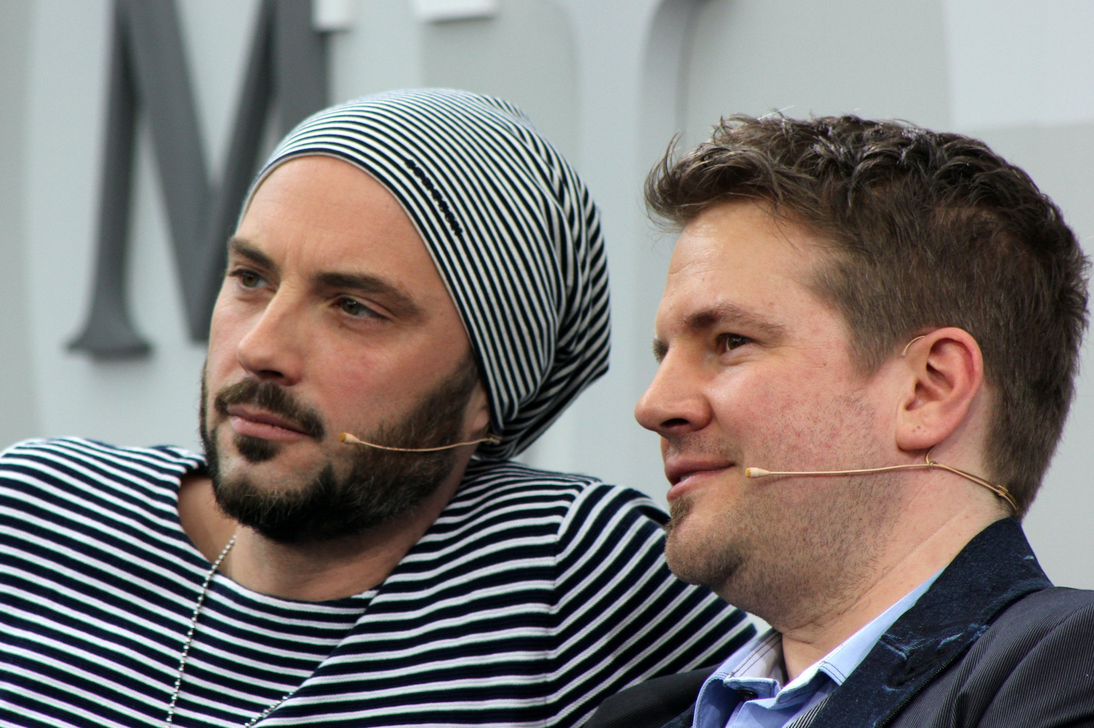 Volker Klüpfel, Michael Kobr - Leipzig Book Fair 2013